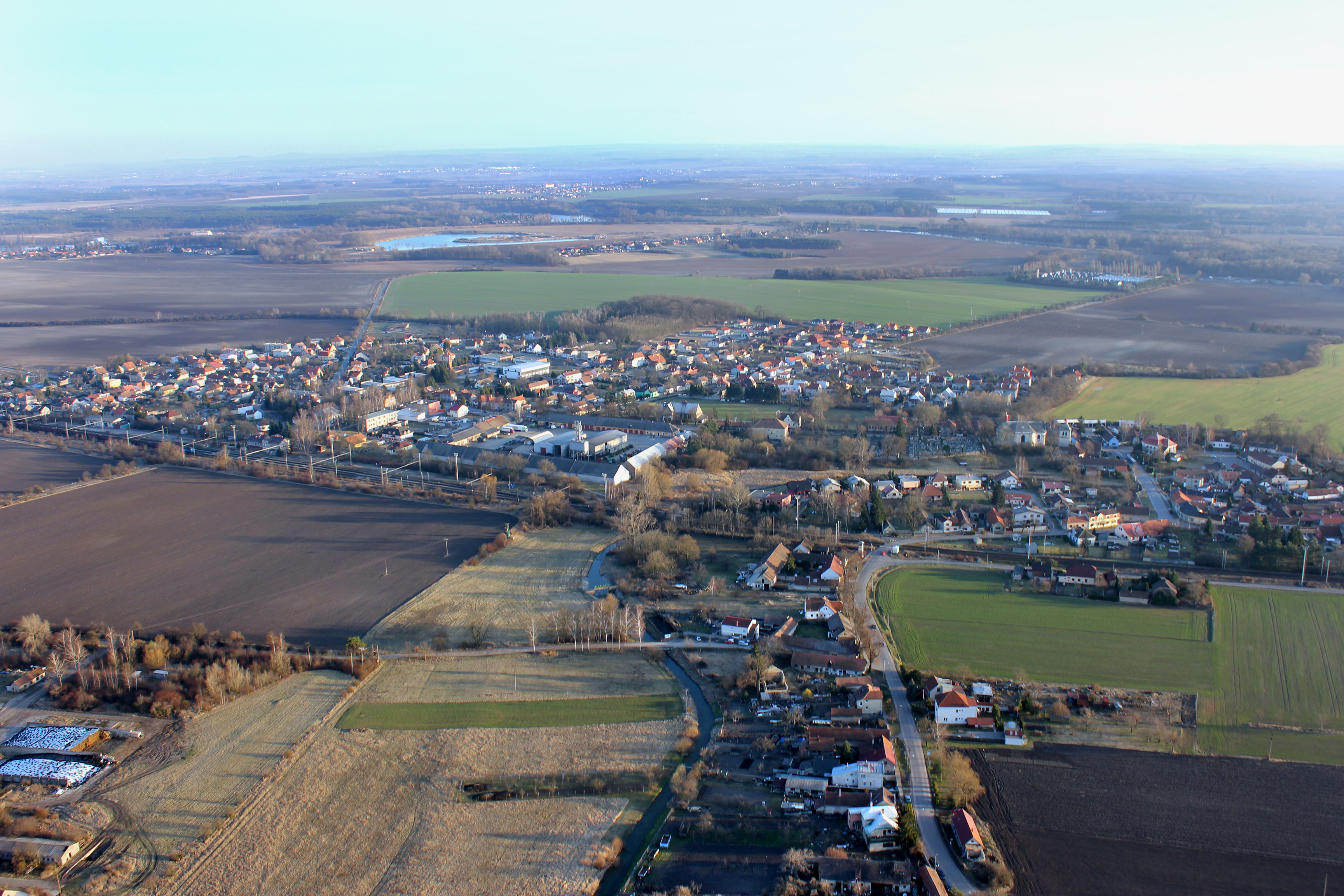 Aerial view of Kostomlaty nad Labem, Czech Republic